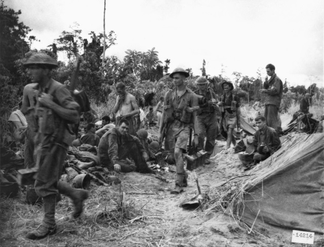 Australian troops from the 2/12th Infantry Battalion march past US soldiers around Huggins' Road Block, Sanananda, New Guinea, January 1943